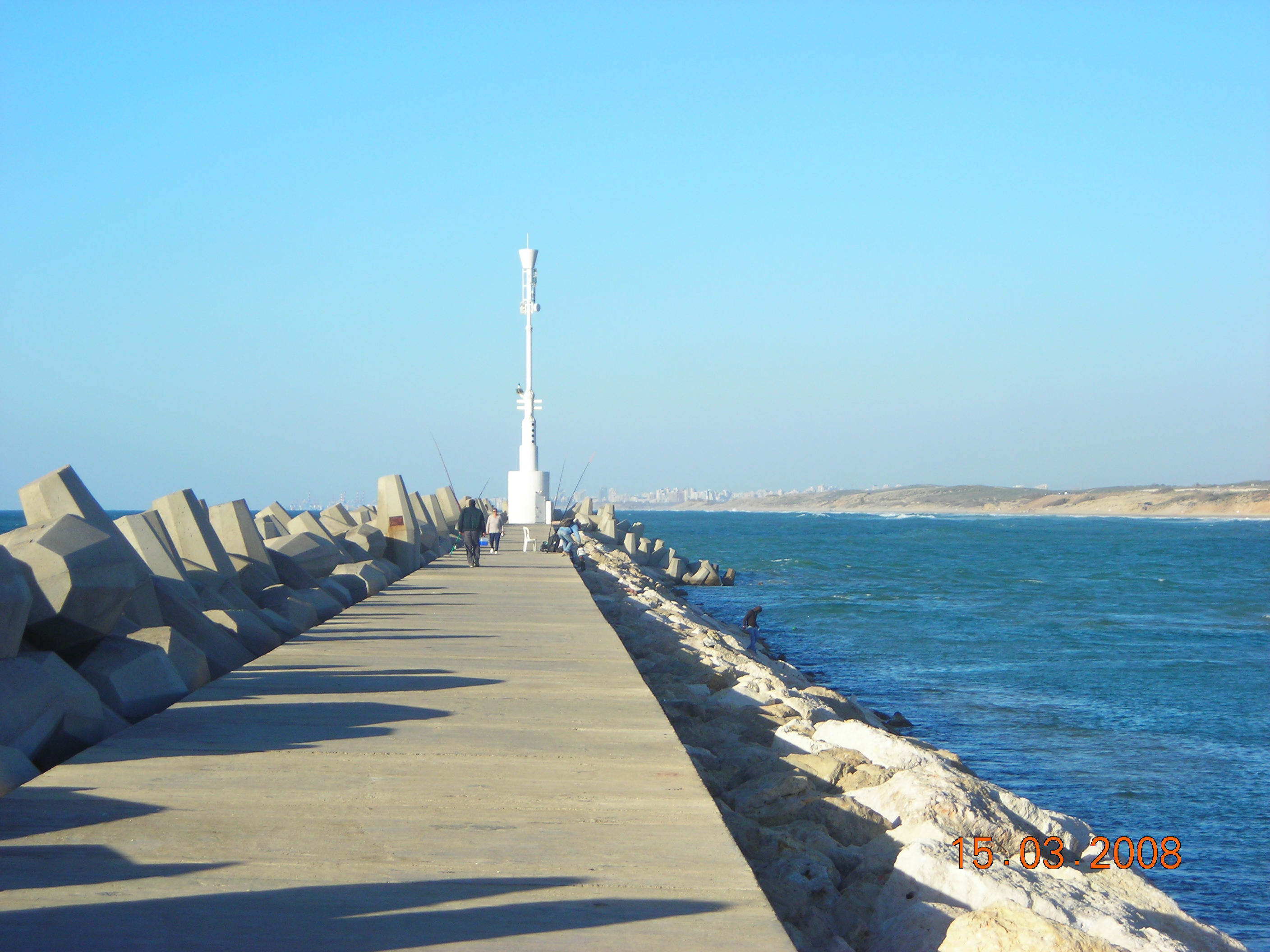 Ashkelon Marina Breakwater Light, 2008